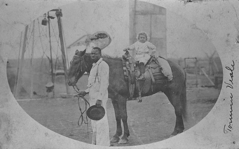 A trusty at the Imperial State Farm with the daughter of Captain Veale (Central Unit), 1907-1909